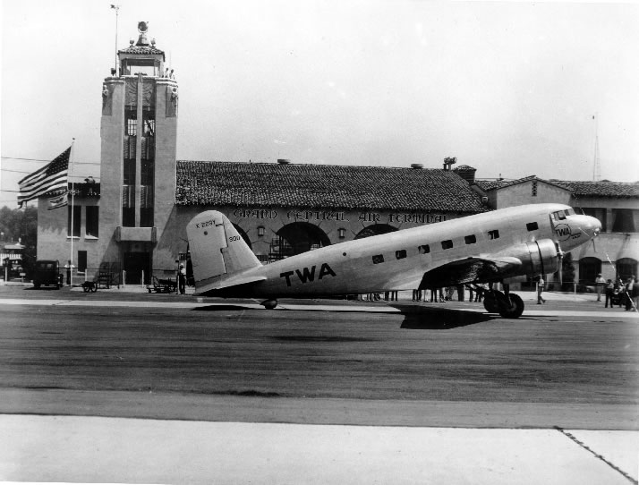 The new Douglas DC-1 dropped in unannounced at Grand Central Air Terminal, Glendale, California on August 16, 1933